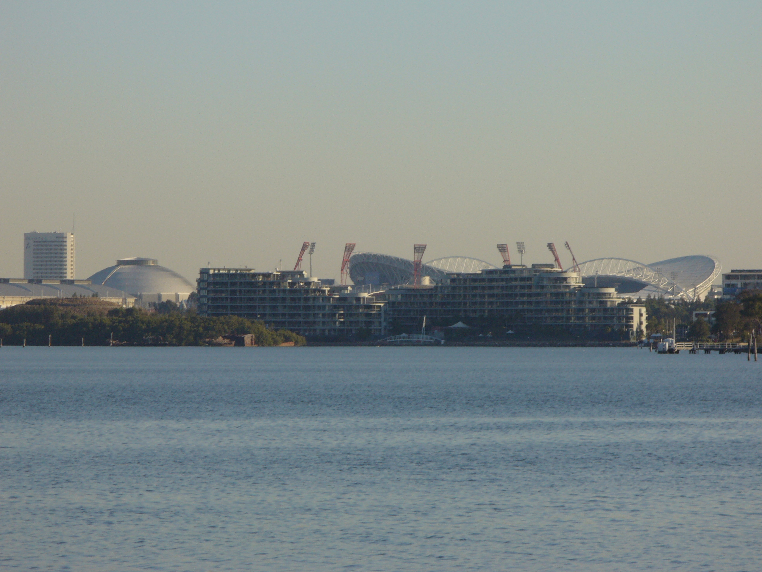 Sydney Olympic Park site, taken from Meadowbank, New South Wales